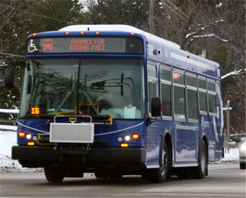 This is a Pace bus in Crystal Lake